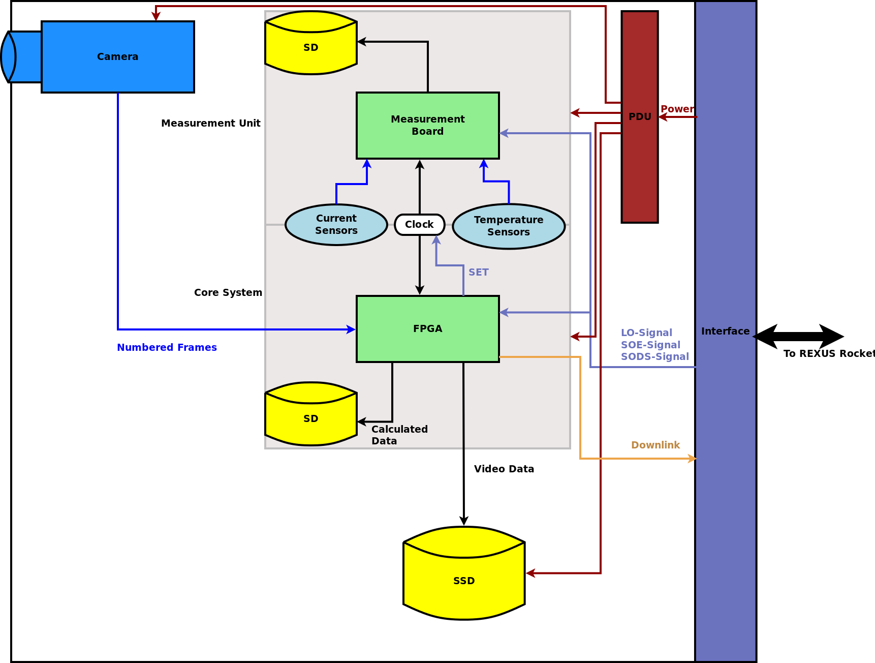 This picture shows the main functionality of the HORACE System